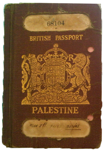 British Mandate Palestinian passport - cropped